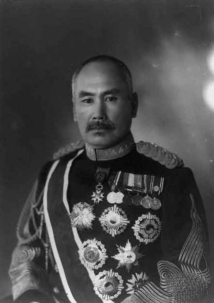 Gen. Hasegawa. Japanese general over Korea; half lgth., seated, (4 - facing left - left side of face is most visible). (original text transcribed from caption card and item)